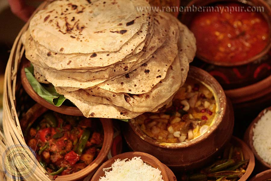 Prasadam